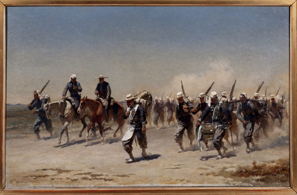 Ref.: PMa_B_475_Brussel; Vrijwilligers van het regiment van Charlotte onderweg in Mexico, 1869, olie op doek, ca 100 x 70cm; D. O. Lahalle; Legermuseum; Brussel; Belgium; Europe|Belgium|Brussel; Europe|Belgium|Bruxelles; ; © Paul M.R. Maeyaert